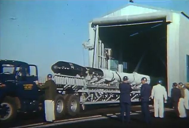 Scout rocket recertification program.